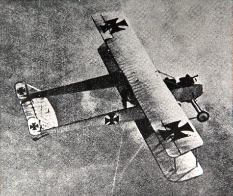 AGO C.II flying